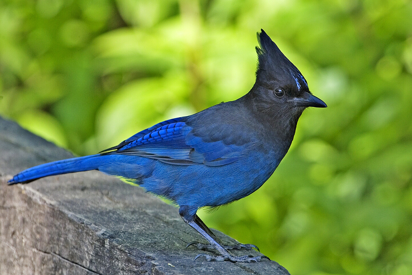 Stellers Jay, Little River Loop Trail, Campbell Valley Regional Park, Langley, British Columbia